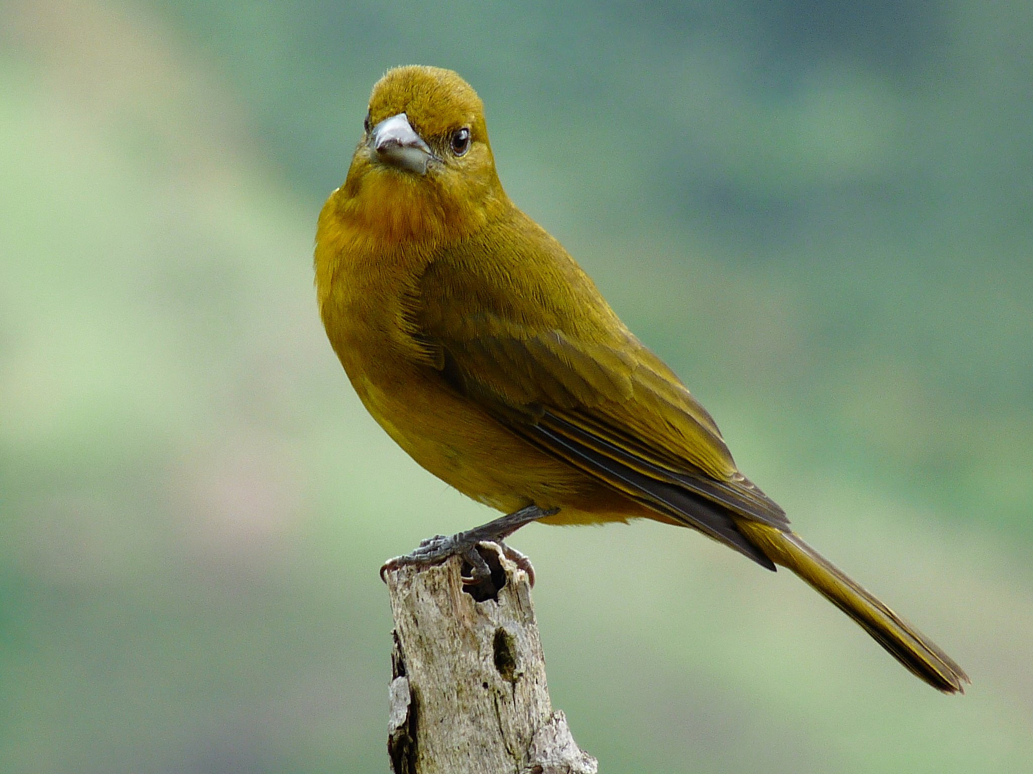 A female Tooth-billed Tanager Piranga lutea in Manizales, Caldas, Colombia.